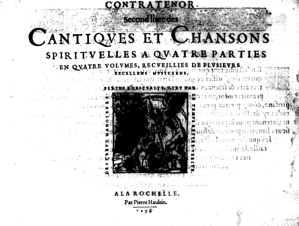 Title page of Jean Pasquier's Second livre des Cantiques et chansons spirituelles (La Rochelle 1578)